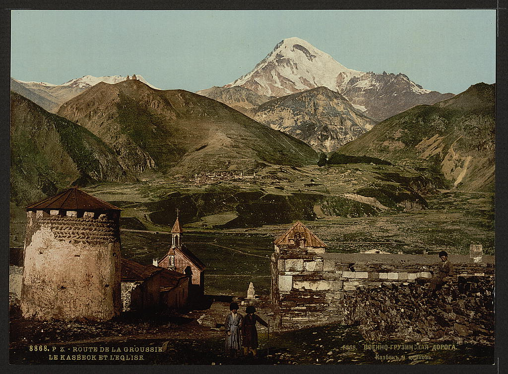 19th-century postcard of Georgian Military Road near the Mount Kazbek. (The road, the kasbeck and the church, Groussie, (i.e., Georgia), Russia)